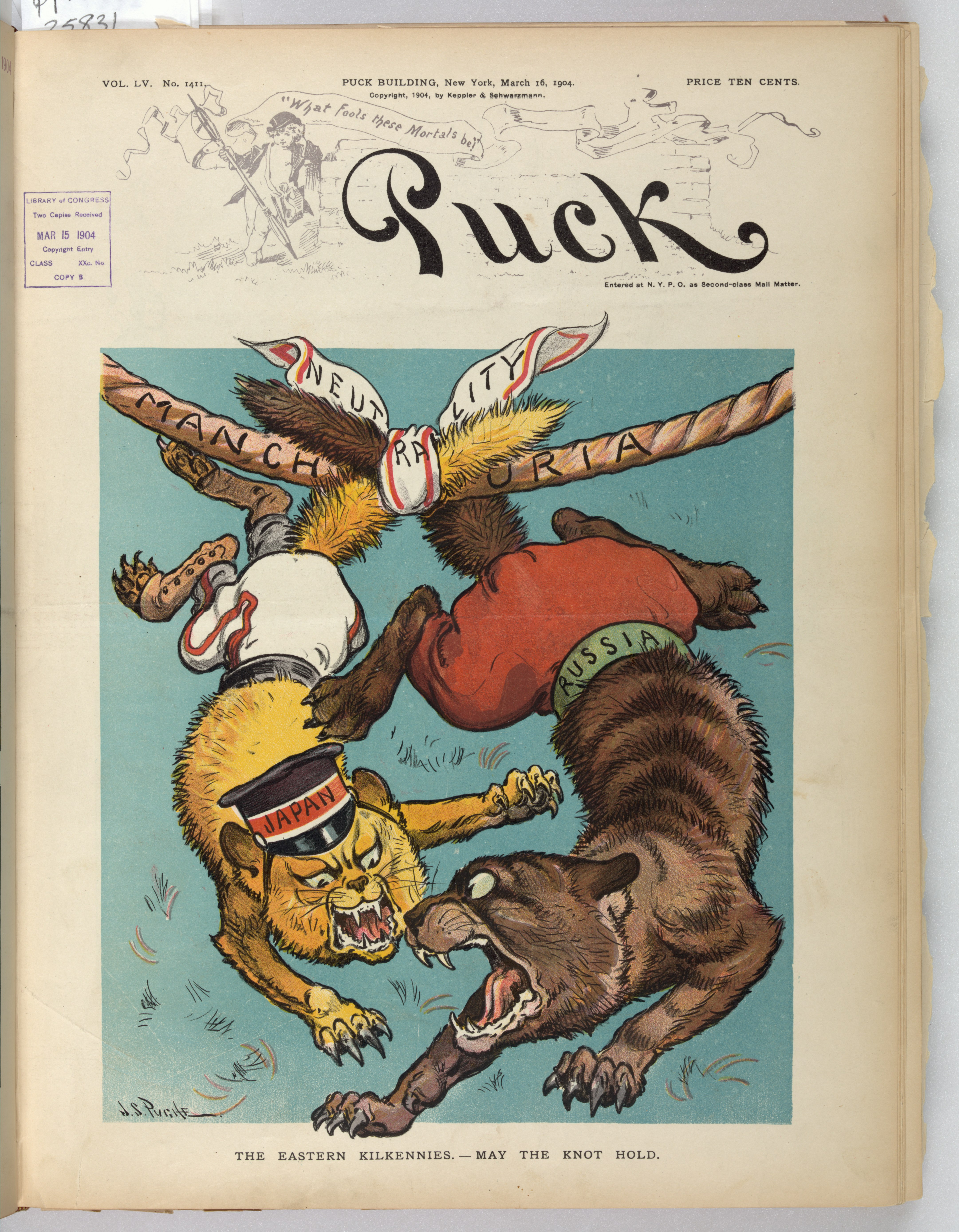 Title: The Eastern Kilkennies - may the knot hold / J.S. Pughe. Abstract/medium: 1 photomechanical print : offset, color.